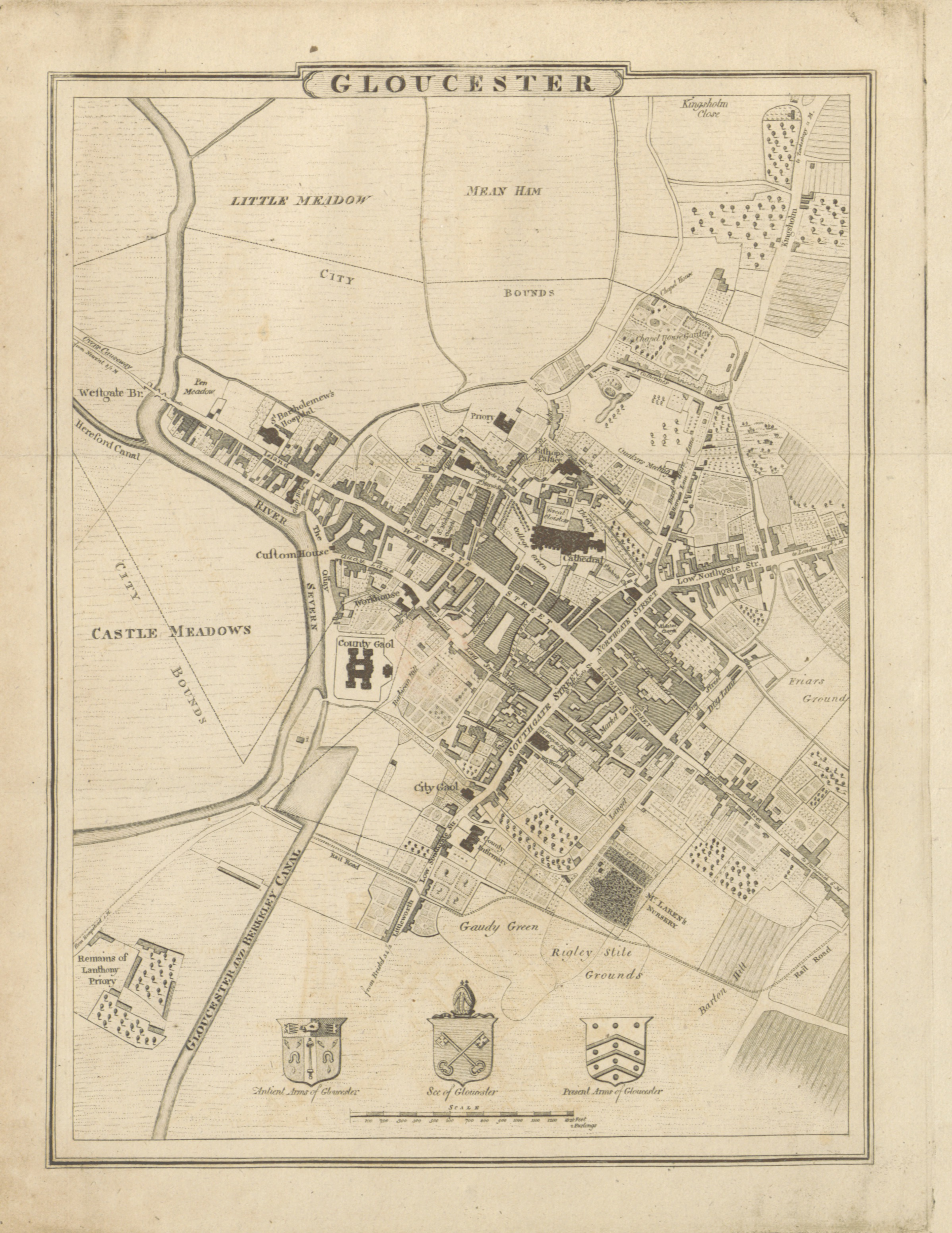 1815 map of the City of Gloucester. The County Gaol, by the River Severn, occupies the site of Gloucester Castle, demolished 1787. Half a mile to the south-west of the Castle are shown the remains of Llanthony Secunda Priory. Gloucester Cathedral (formerly Gloucester Abbey) is shown at centre, north-east of the Castle. Image taken from: RUDGE, Thomas, "The History and Antiquities of Gloucester, etc", 1815.